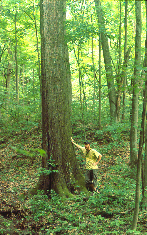 Large red oak (Quercus rubra) in Hawk Woods, Riddle State Nature Preserve, Athens County, Ohio; photo taken by John Knouse, 2003